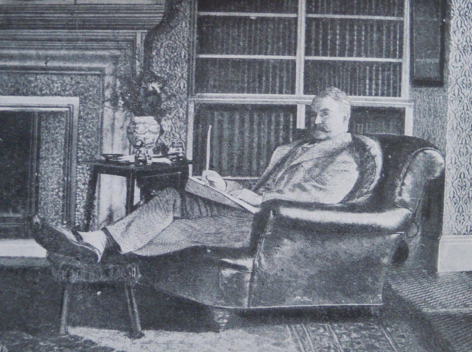 Photograph of W. S. Gilbert working in the library at Grim's Dyke.